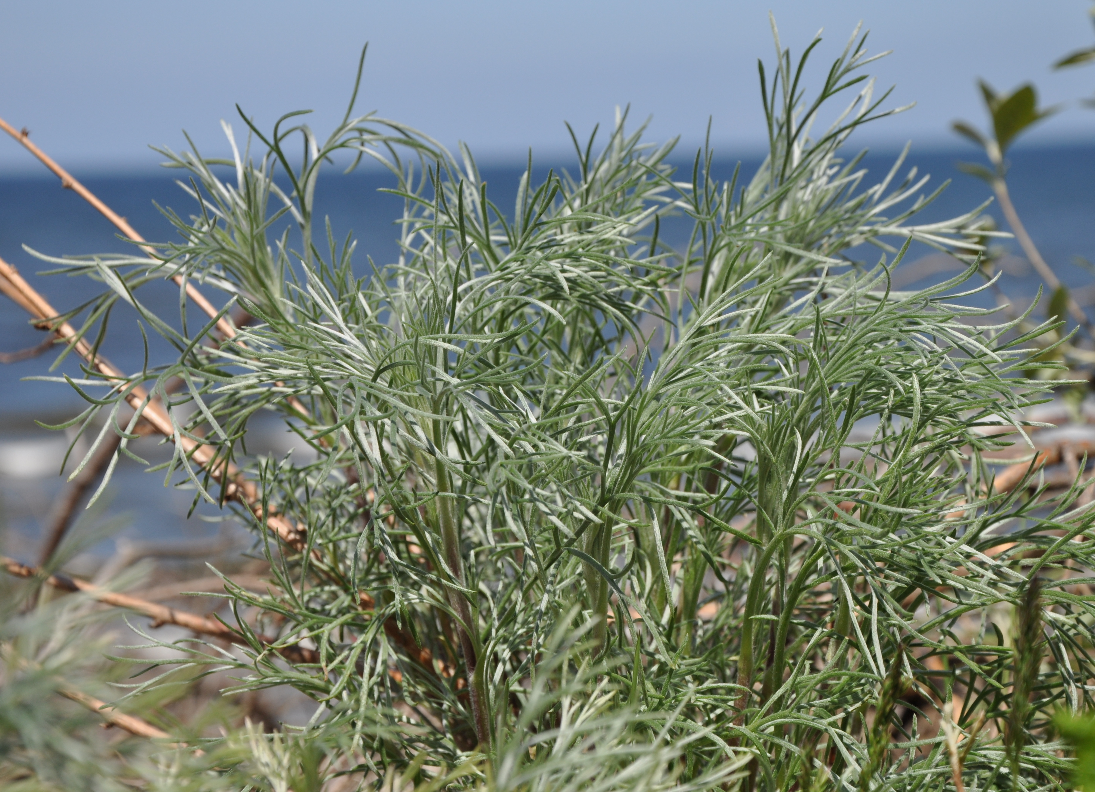 Artemisia campestris subsp. sericea. On the coastal dune in Mrzeżyno, Poland